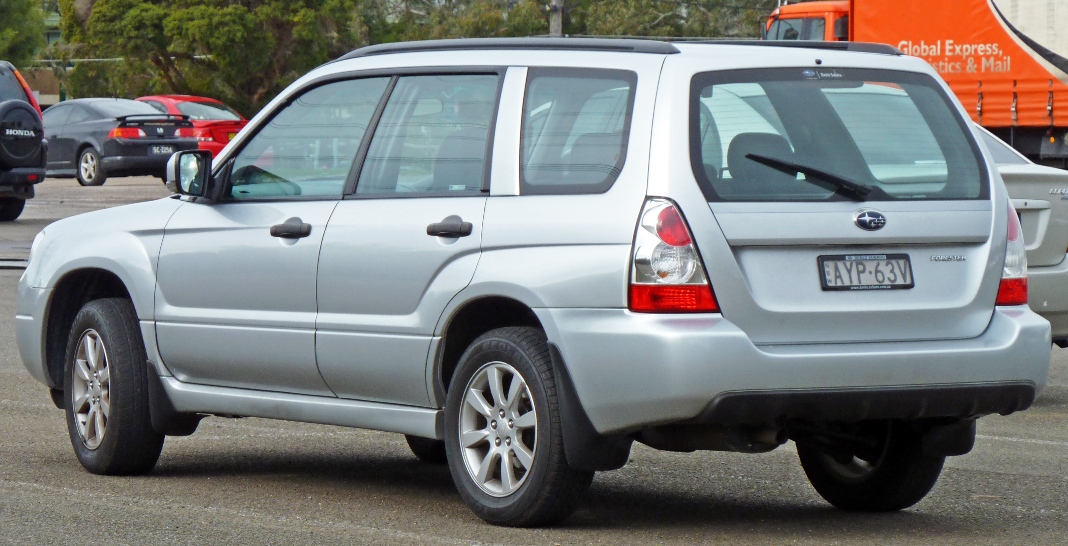 2006 Subaru Forester XS wagon. Photographed in Woolooware, New South Wales, Australia.